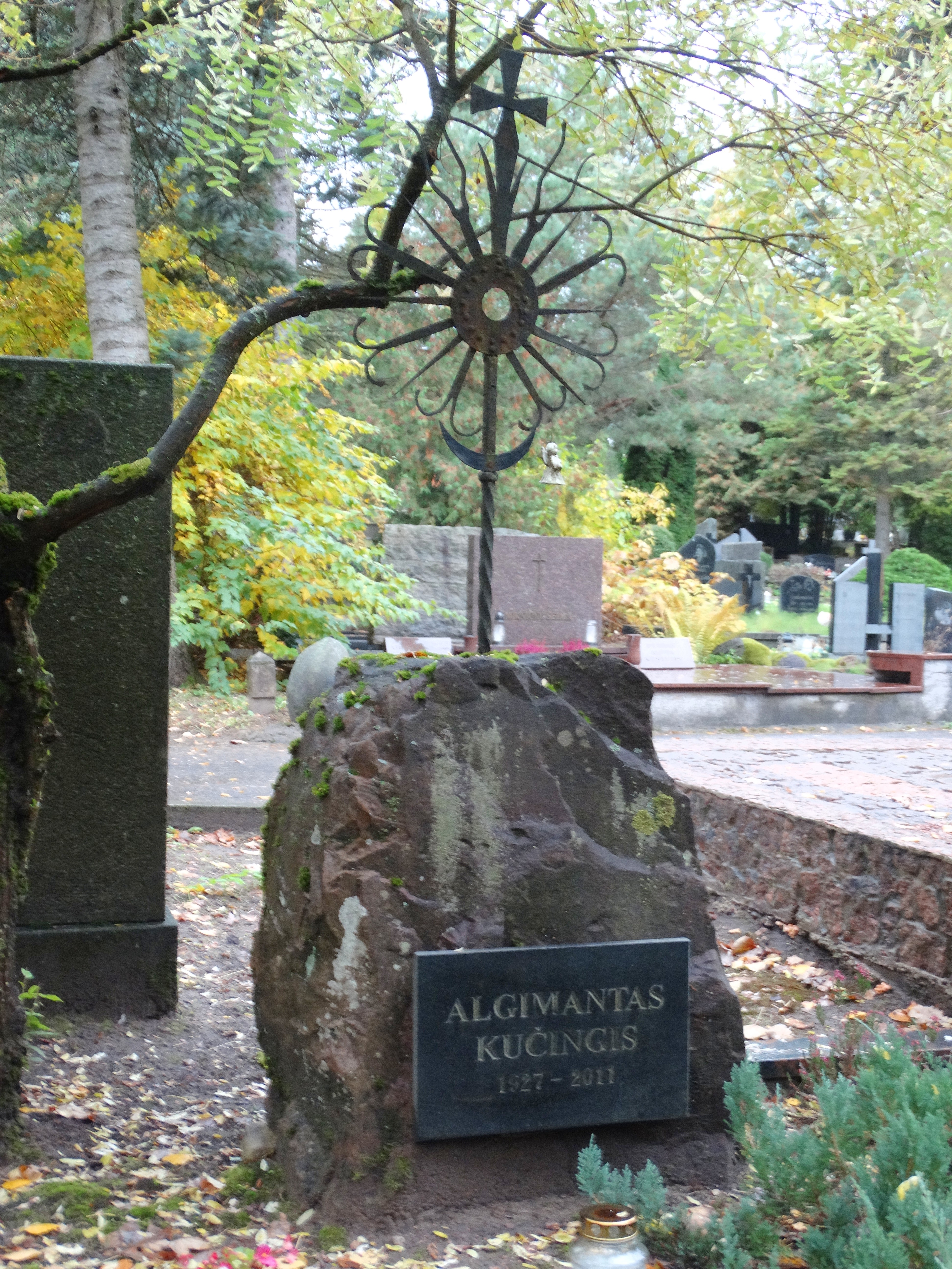 Tomb of Algimantas Kučingis, Romainiai, Lithuania